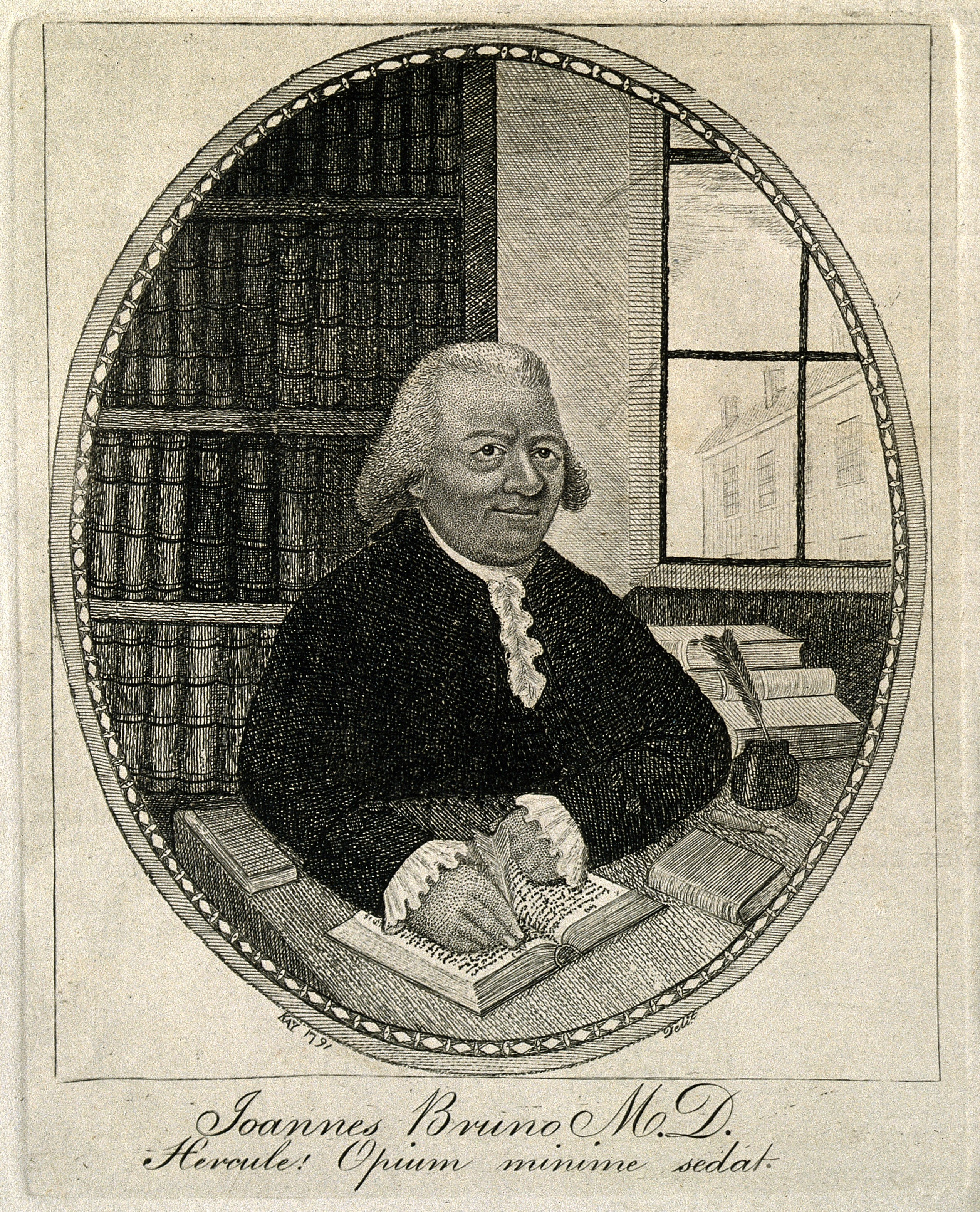 John Brown [Bruno]. Etching by J. Kay, 1791. Iconographic Collections Keywords: brown [bruno], john, 1735-1788; portrait prints; etchings; John Brown [Bruno]